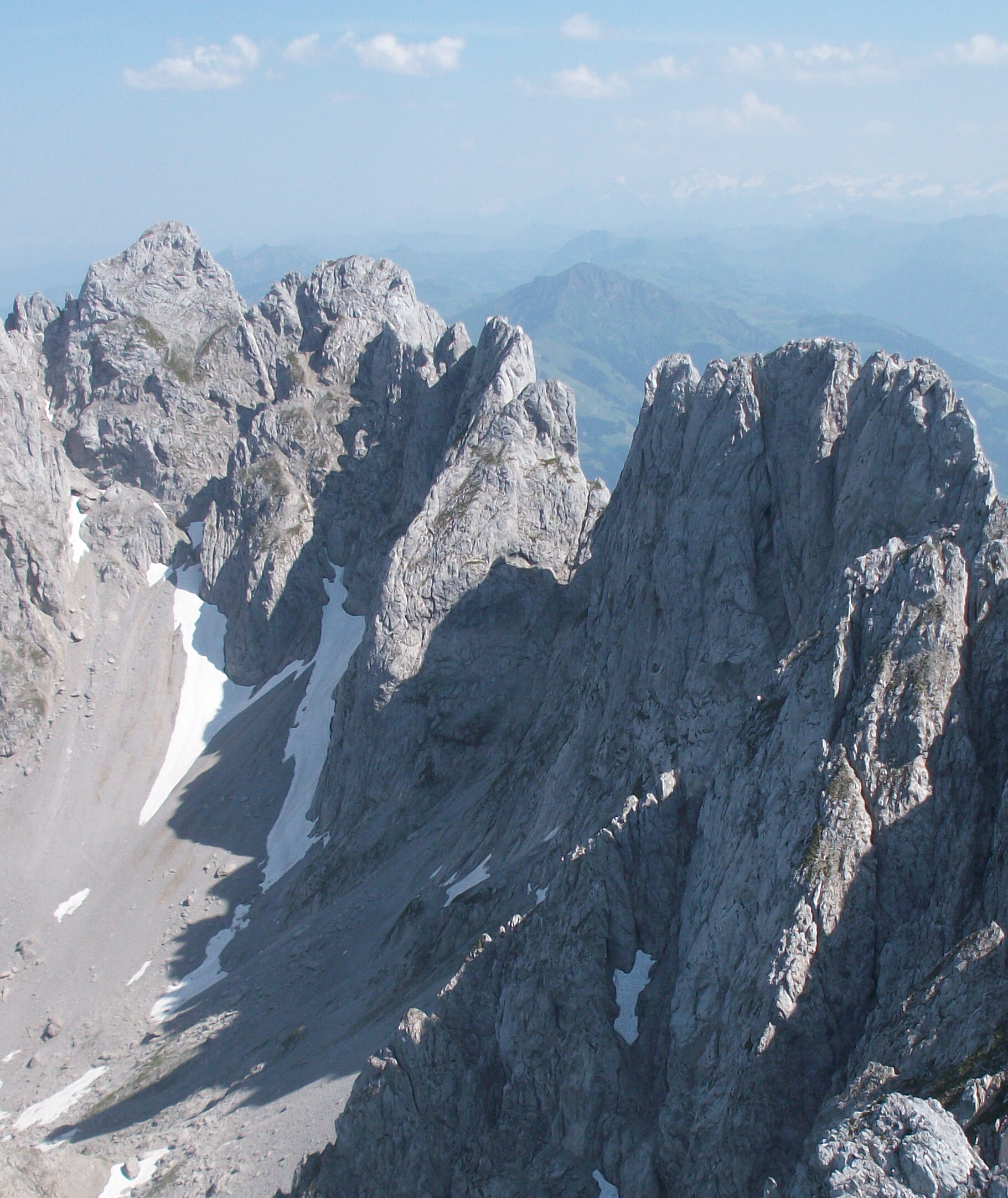 Kleines Törl from northside